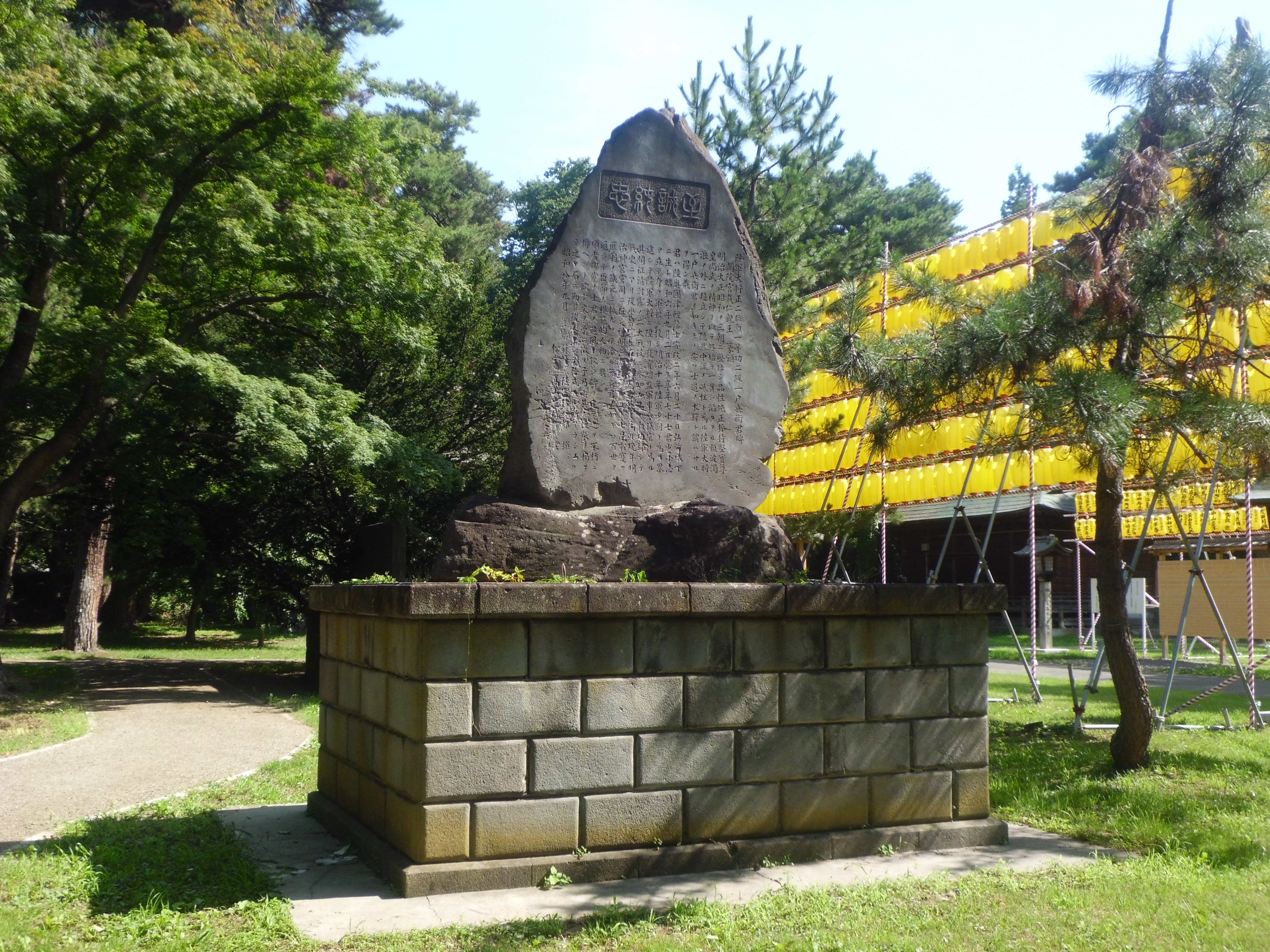 Monument of Hyoe Ichinohe